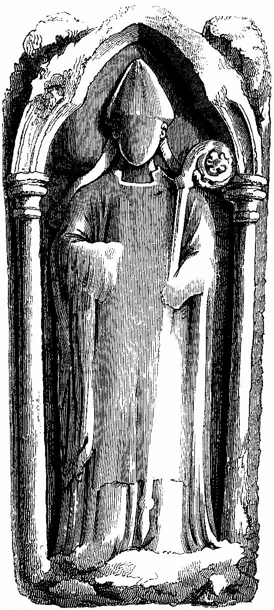 19th-century representation of the tomb of the Boy bishop, Salisbury, Wiltshire, England